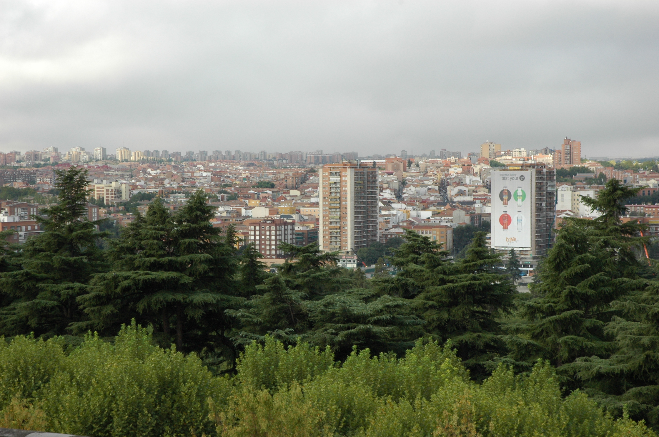 Partial view of Latina district (as well as possibly Carabanchel at the left of the background) in Madrid (Spain). Image taken from the Royal Palace.